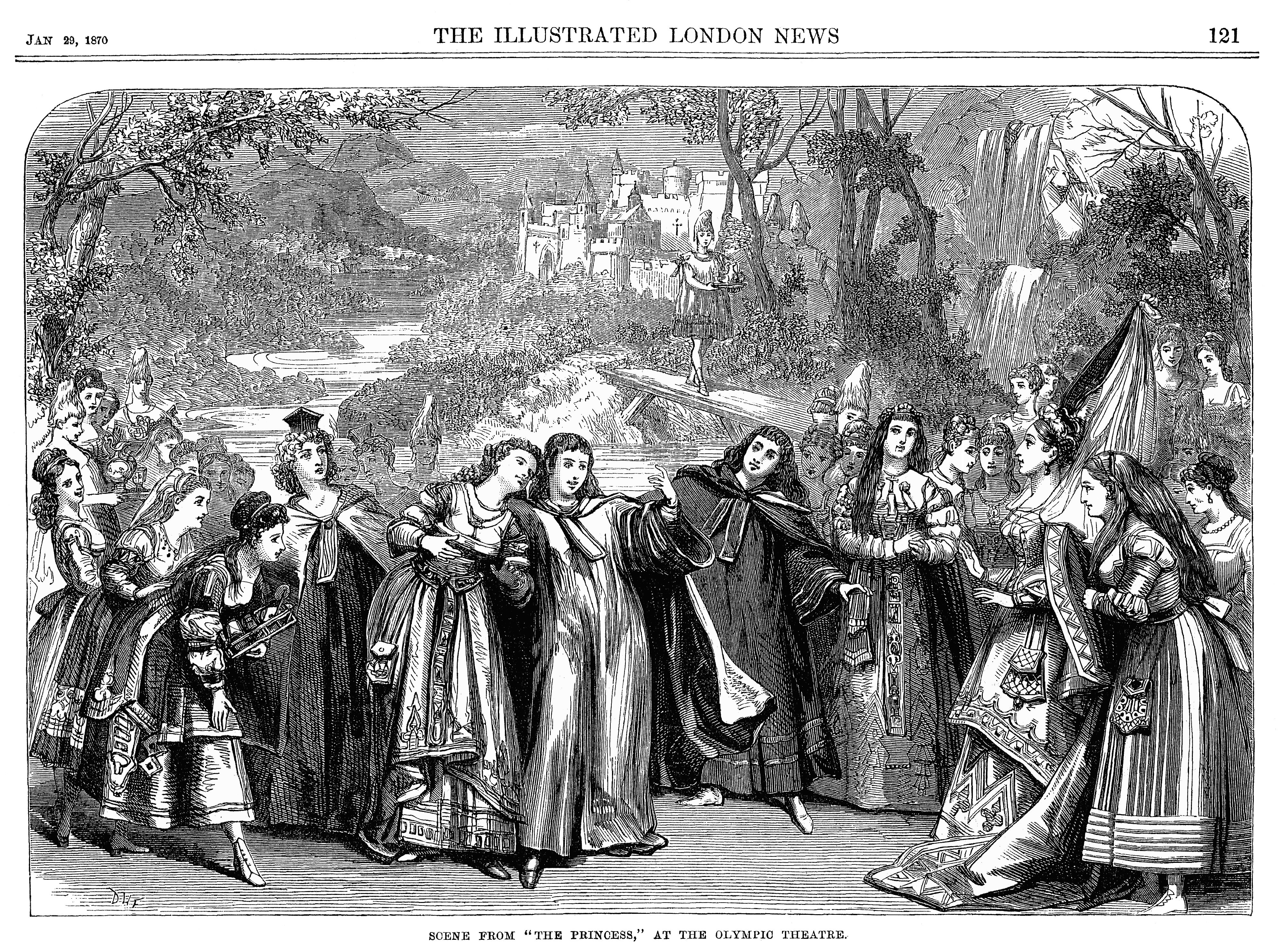 Illustration of W. S. Gilbert's The Princess, reworked later into Princess Ida. Original accompanying text: SCENE FROM "THE PRINCESS" Our Illustration presents the principle scene from the spectacle now represented at the Olympic - namely, that of the grounds of Castle Adamant, to which Prince Hilarion and his friends gain admission, and there so misbehave themselves that the Princess-Principal of the college has her suspicions, and in the end discovers the trick attempted to be played upon her. The different expressions of her companions show the different feelings with which they are animated. One of them recognises her brother in the supposed female; and thus, by a series of surprises, the plot against the celibate institution is discovered. It thrives, nevertheless; and in the end the fanatical young ladies return to the world and are taught to be content with nature under ordinary conditions.